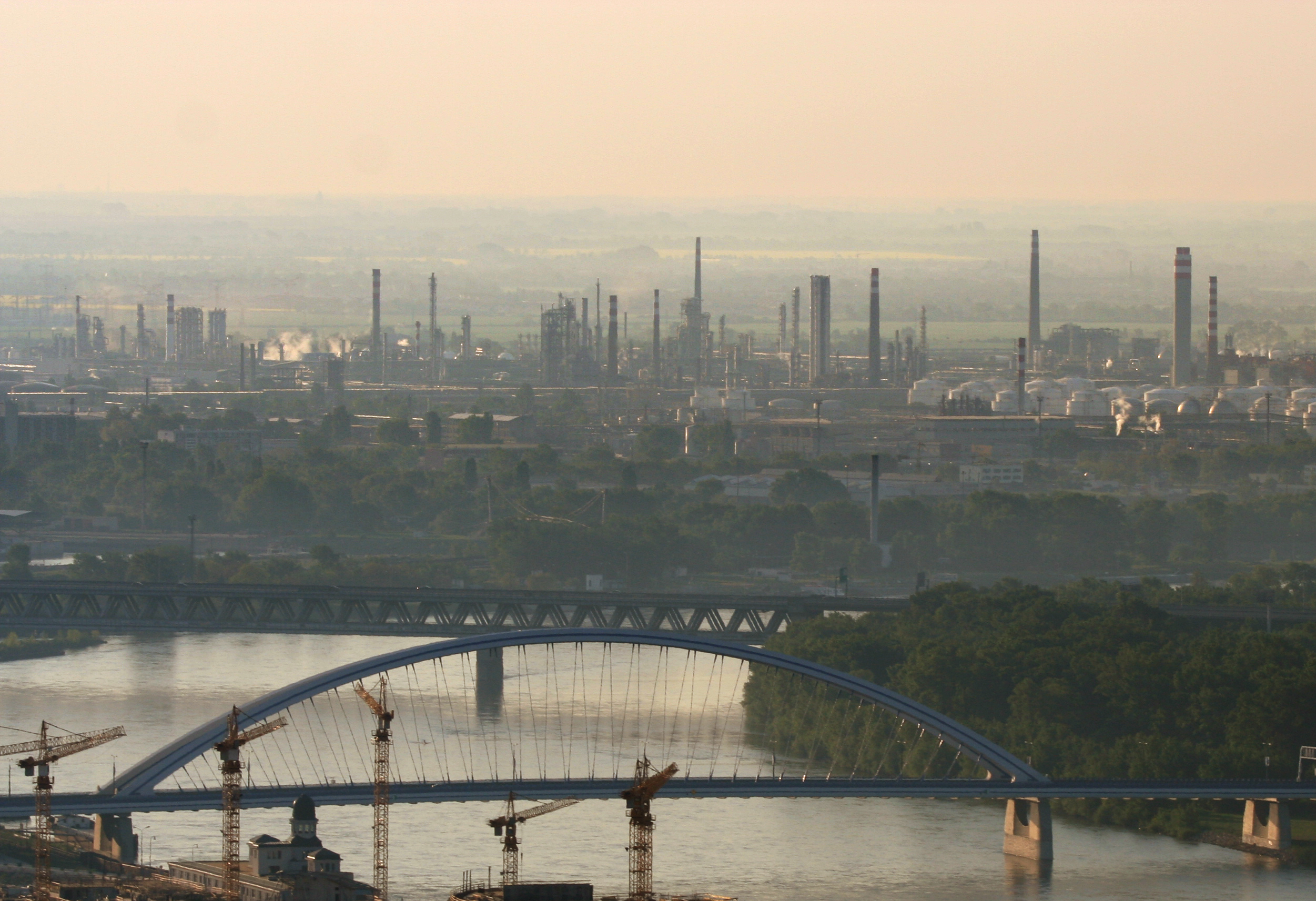 View from helicopter, Slovnaft